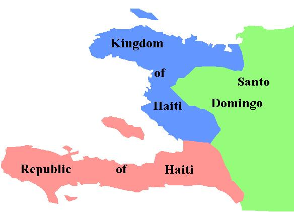 Kingdom of Haiti in the North and the Republic of Haiti in the South. Eastern portion of the Country at the time (1815)belonged to Santo Domingo.